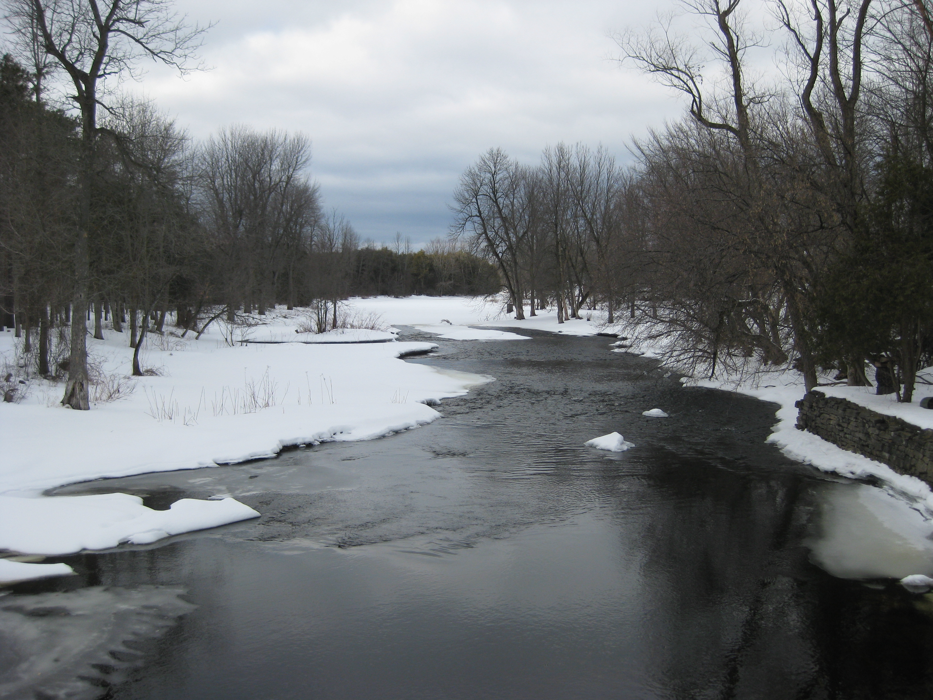 Top of the Creek